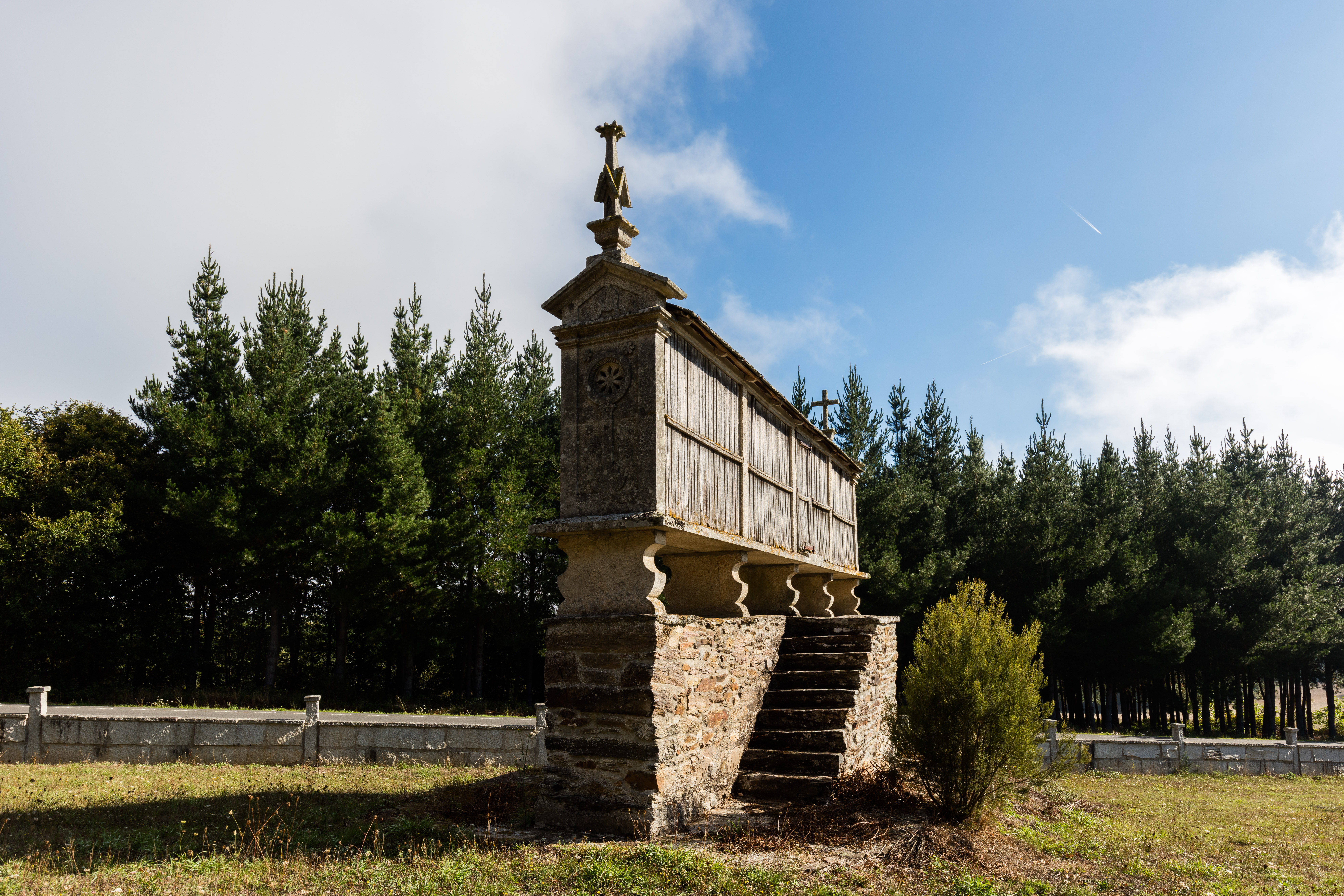 Hórreo, Toxibo, St James's Way, Lugo, Spain